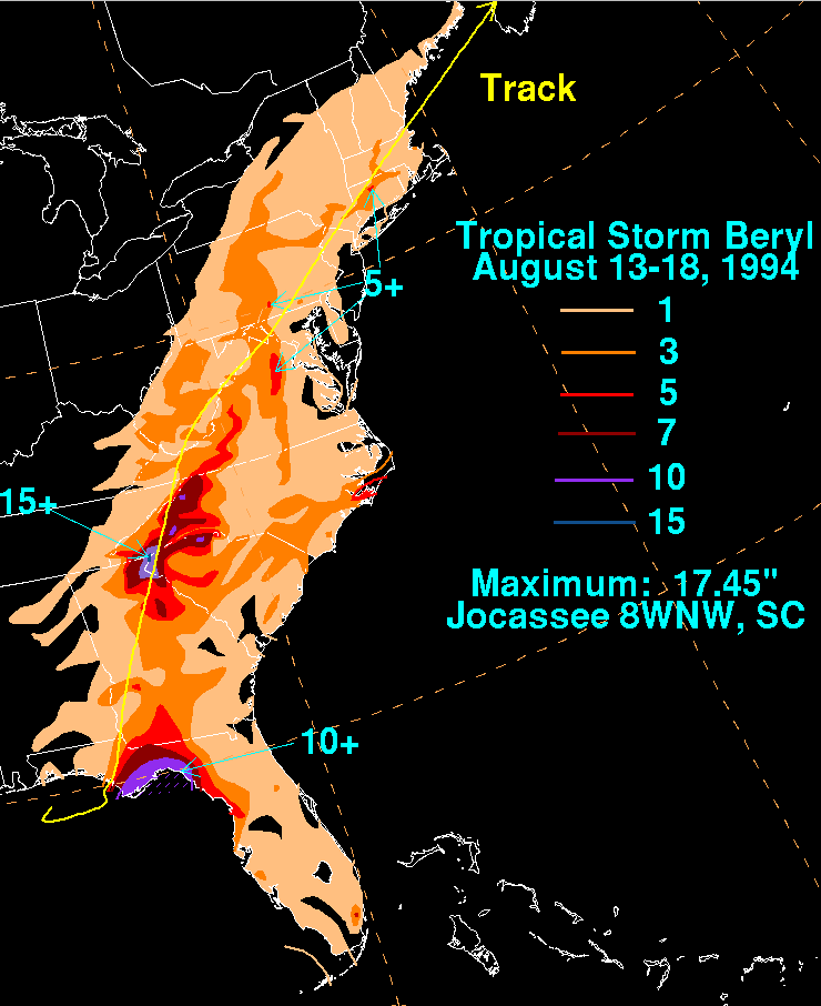 Storm total rainfall map of Tropical Storm Beryl during August 1994.